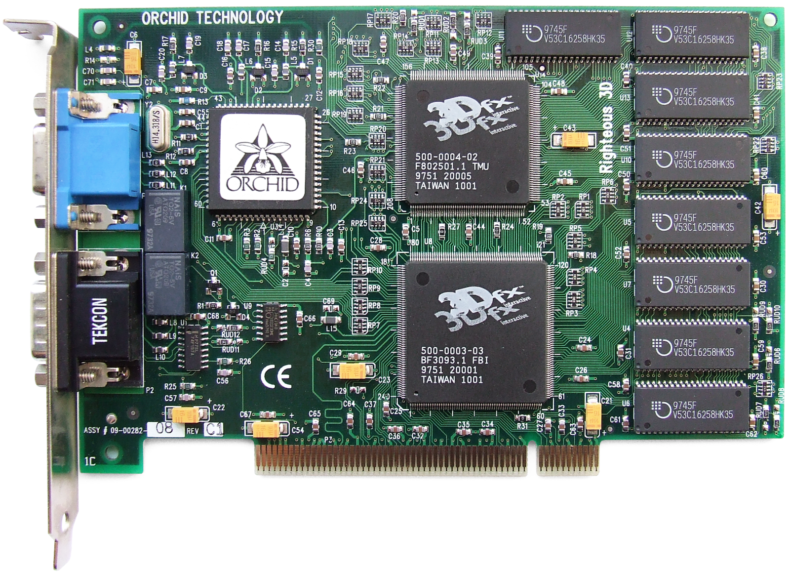 Orchid Righteous 3D add-on accelerator card, which is based on the 3dfx Voodoo Graphics chipset and equipped with 4 MB of EDO DRAM. As there are no built-in 2D capabilities whatsoever, a pass-through cable connecting to the primary video card is used for normal operation, while the monitor plugs directly into the 3dfx accelerator board.This is the early PCB revision with mechanical relays for switching between 2D and 3D video signal output.